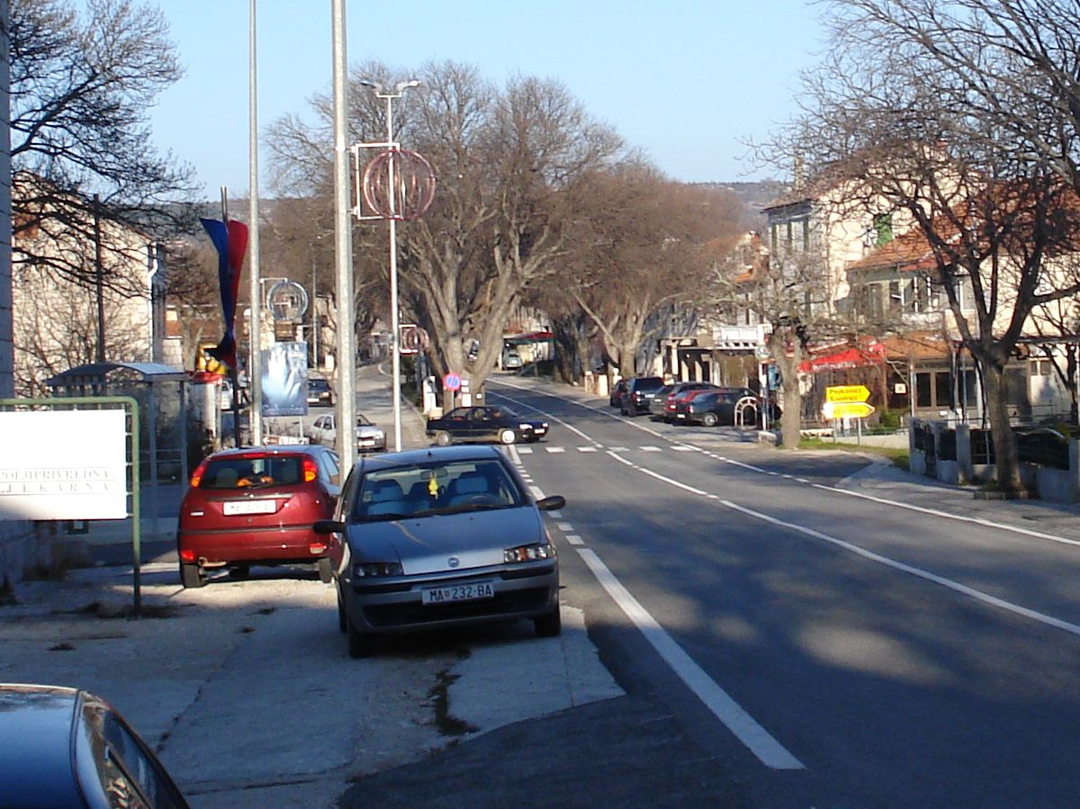 Main street in Zadvarje, a municipality in Split-Dalmatia County, Croatia.